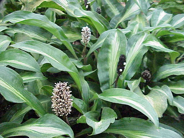 Species: Palisota pynaertii Family: Commelinnaceae Image No. 3